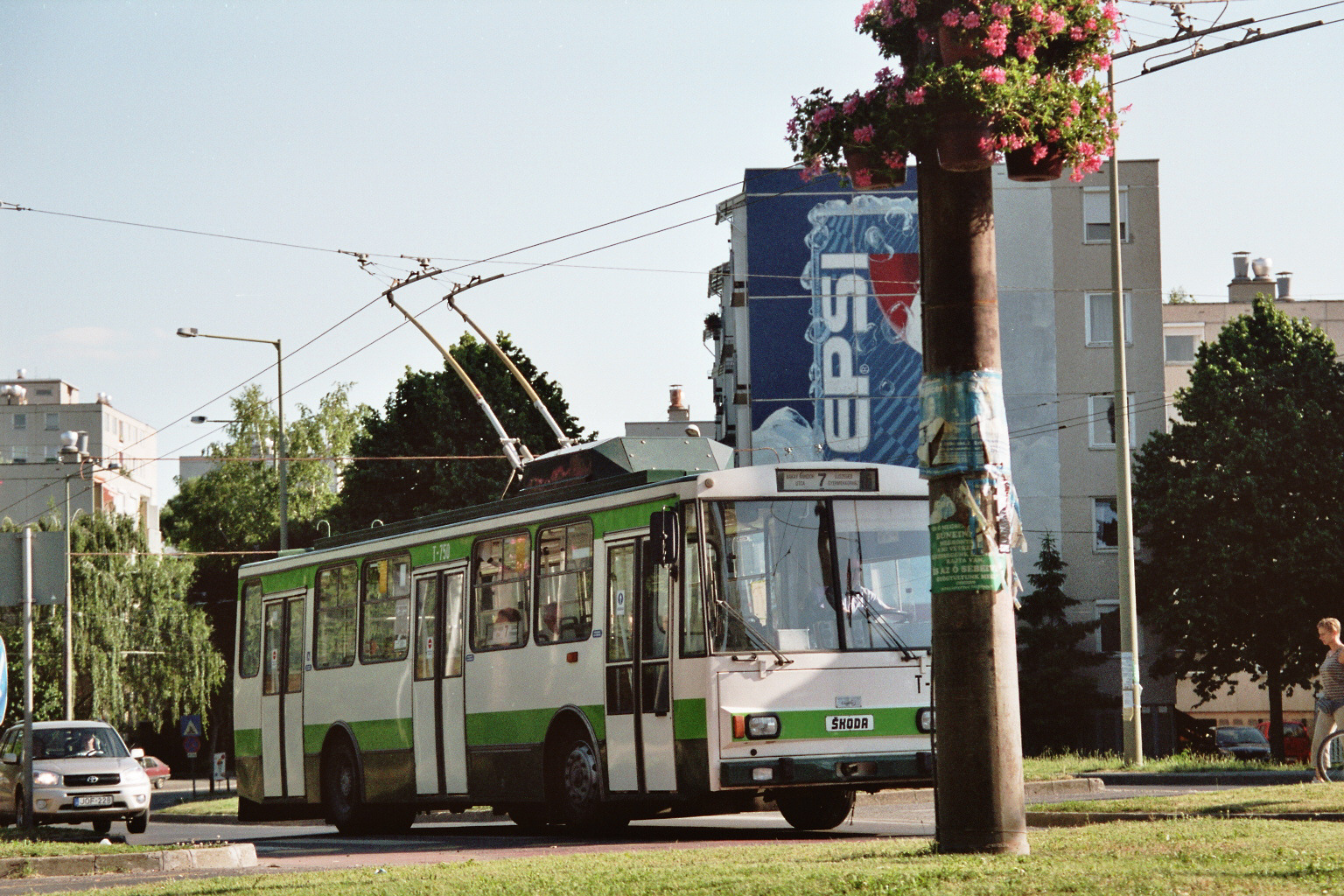 Trolley line 7 in Szeged.